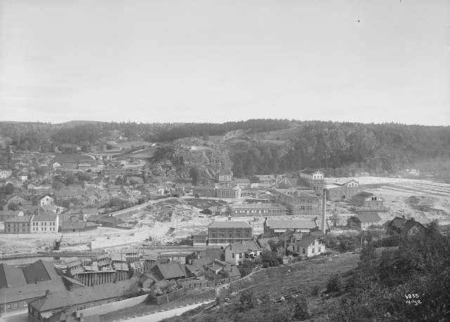 Saugbrugsforeningen at Kaken in Halden, Norway